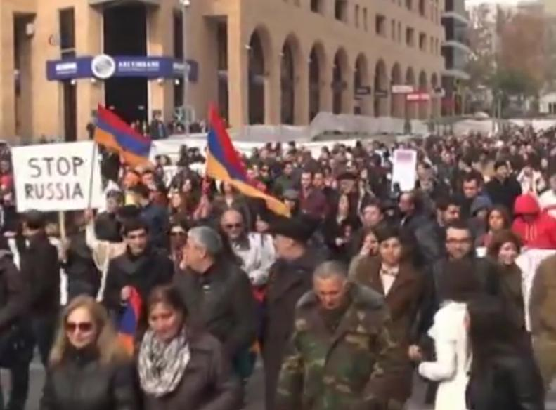 2013 Armenian protests